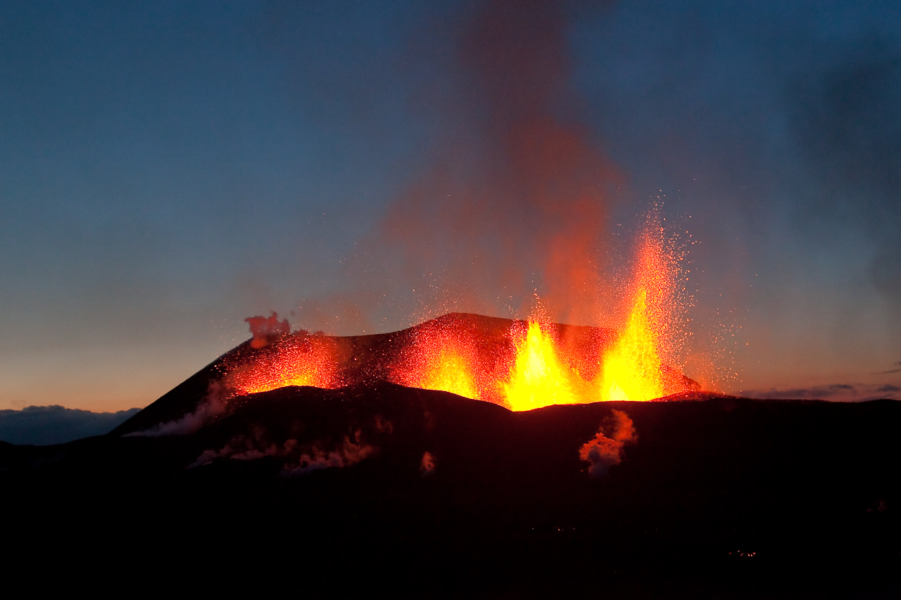 Volcanic eruption at Fimmvörðuháls in Iceland on its 6th day